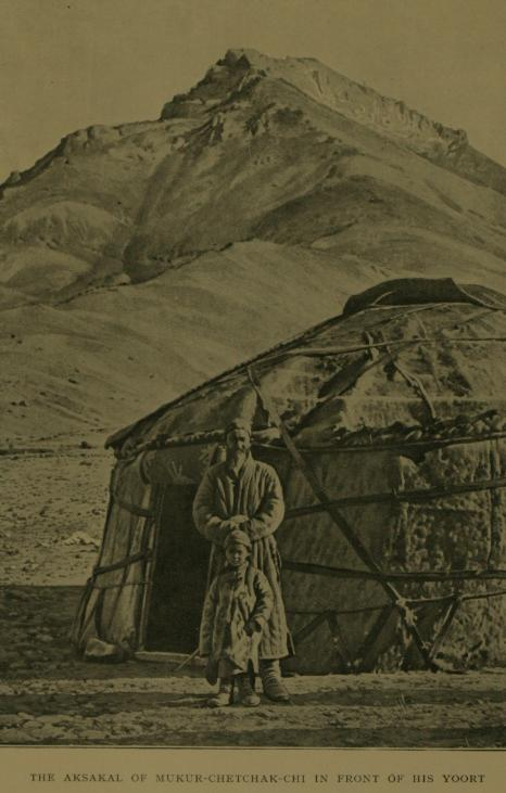 The Aksakal of Mukur-Chetchak-Chi in front of his Yoort